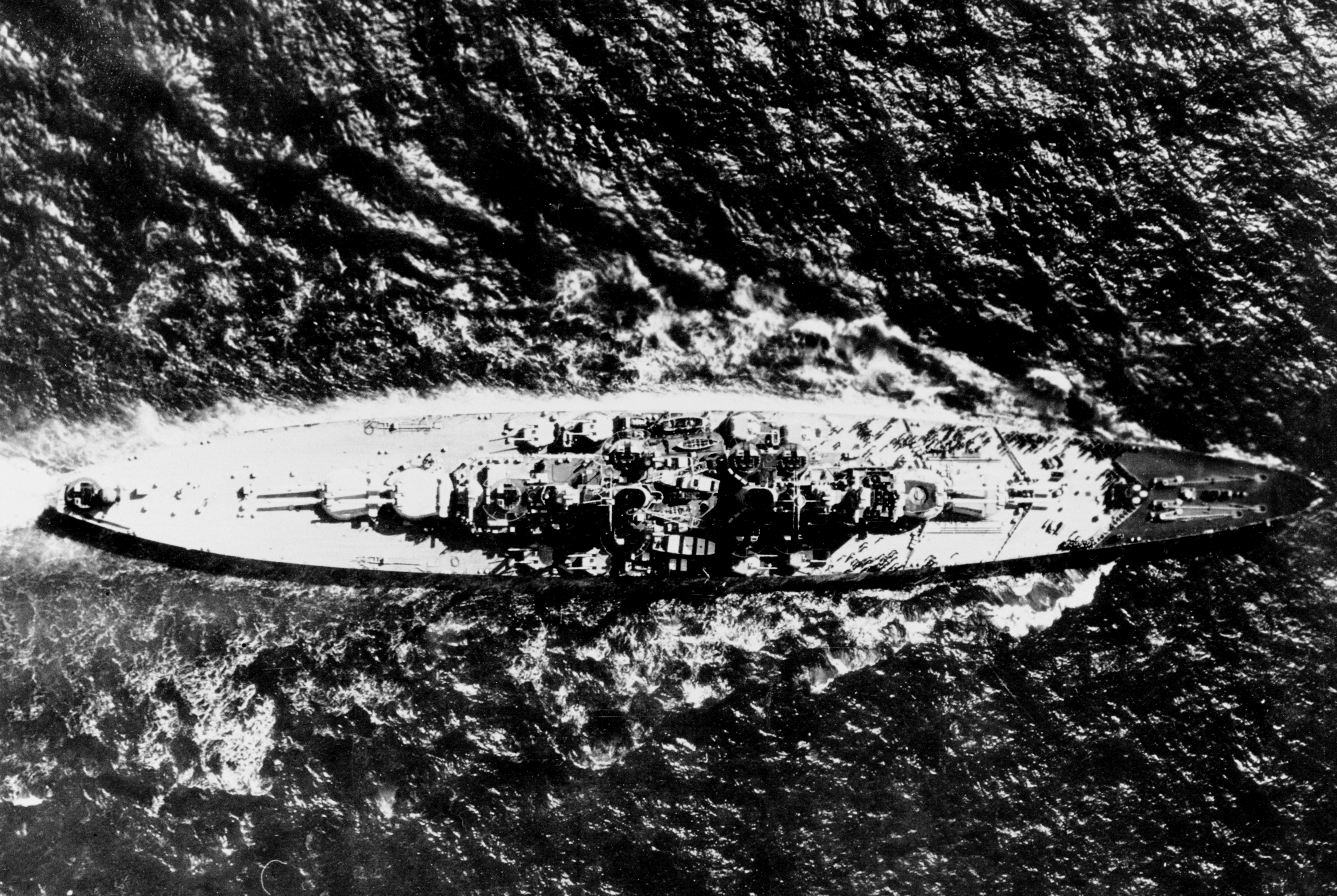 Overhead view of the Royal Navy battleship HMS Vanguard (23) underway.